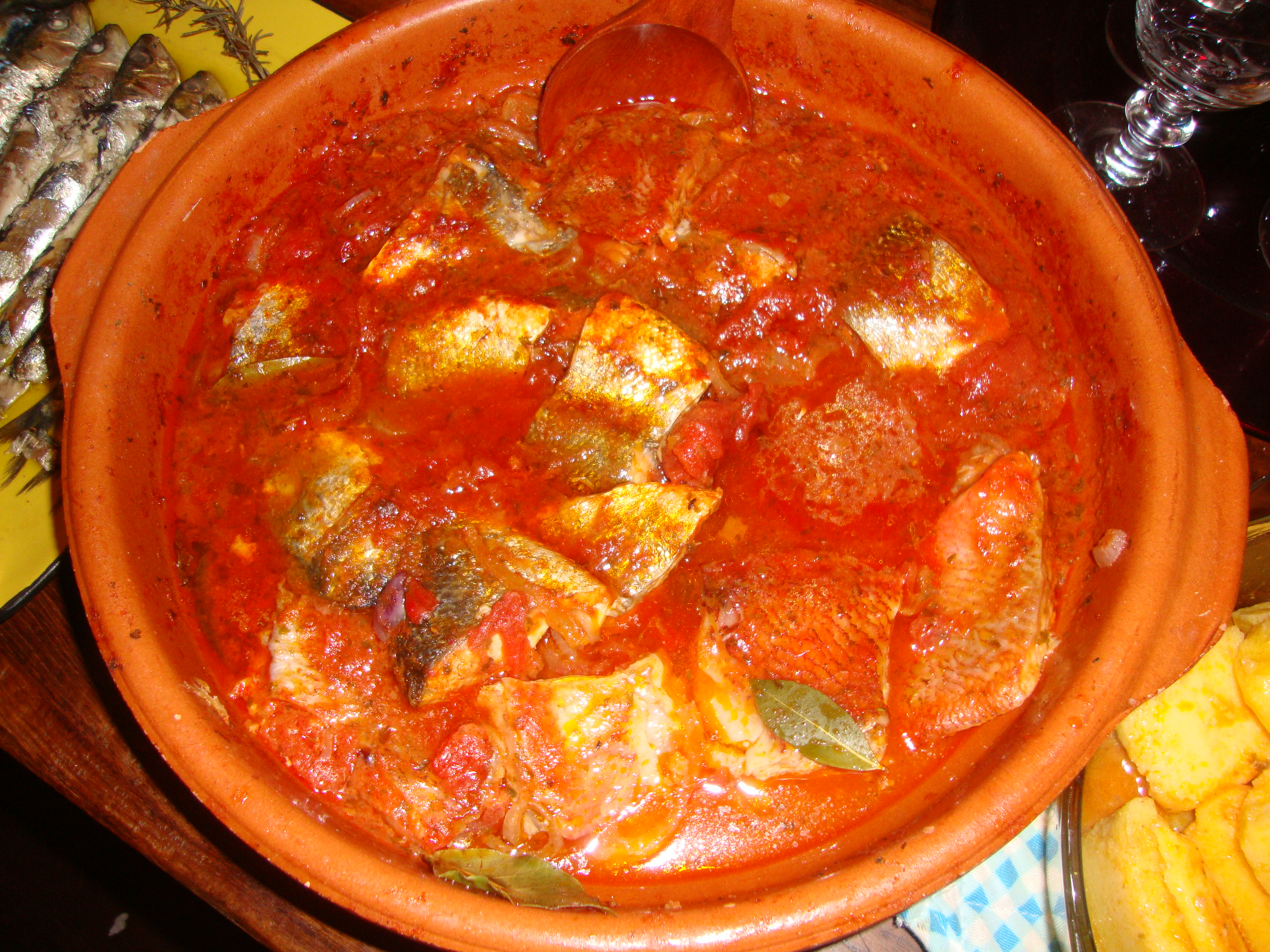 Brudet, brodet or brodeto is a fish stew made in Croatian regions of Dalmatia, Kvarner and Istria, as well as along the coast of Montenegro. It consists of several types of fish, and the most important aspect of brudet is its simplicity of preparation and the fact that it is always prepared in a single pot.